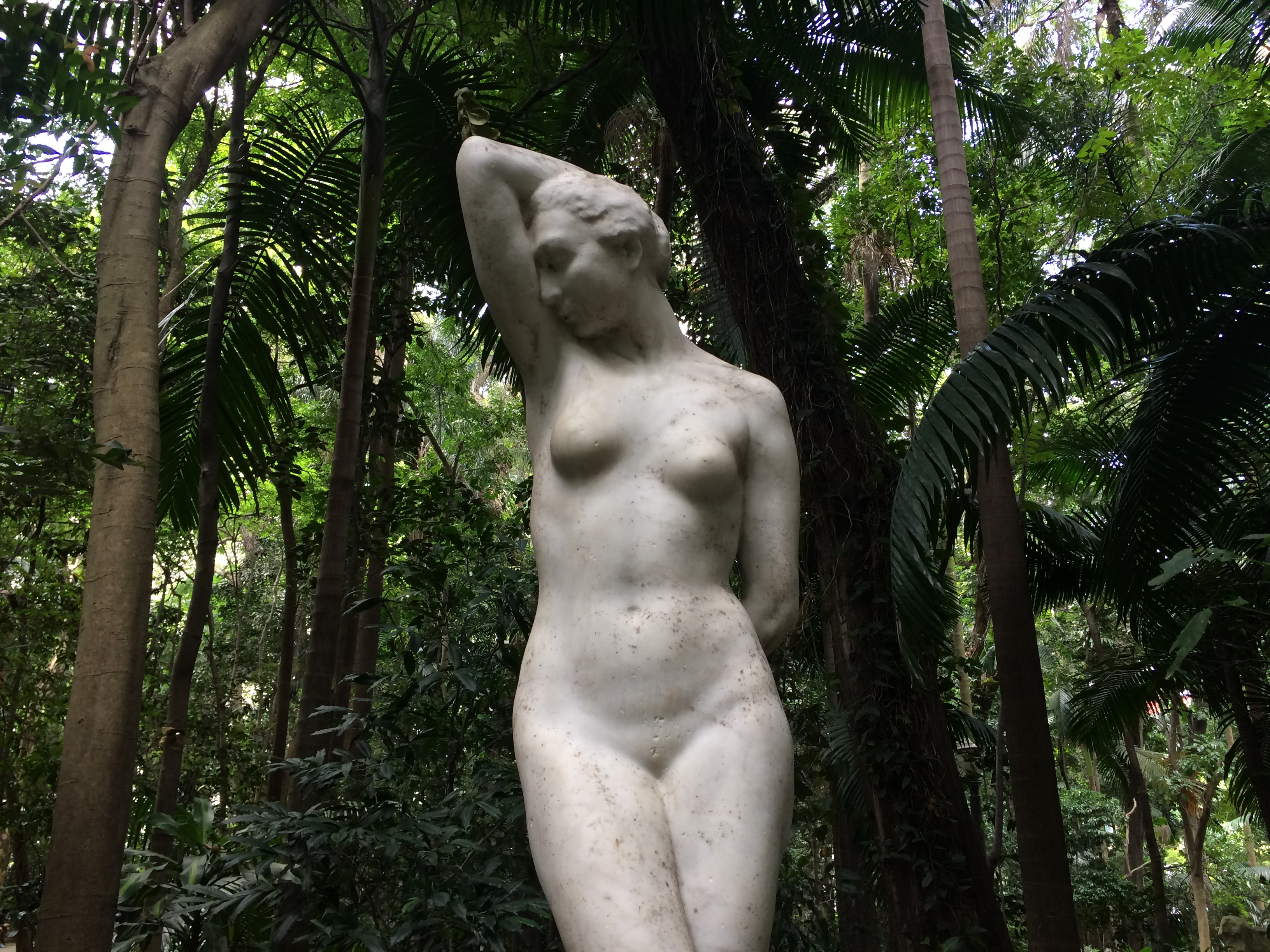 Frontal medium shot of Aretuza statue at Parque Trianon in São Paulo, Brazil